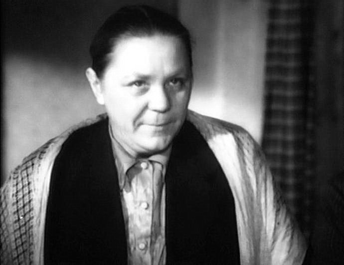 Valentina Telegina as Varvara Kurochkina in The Precious Seed (1948)